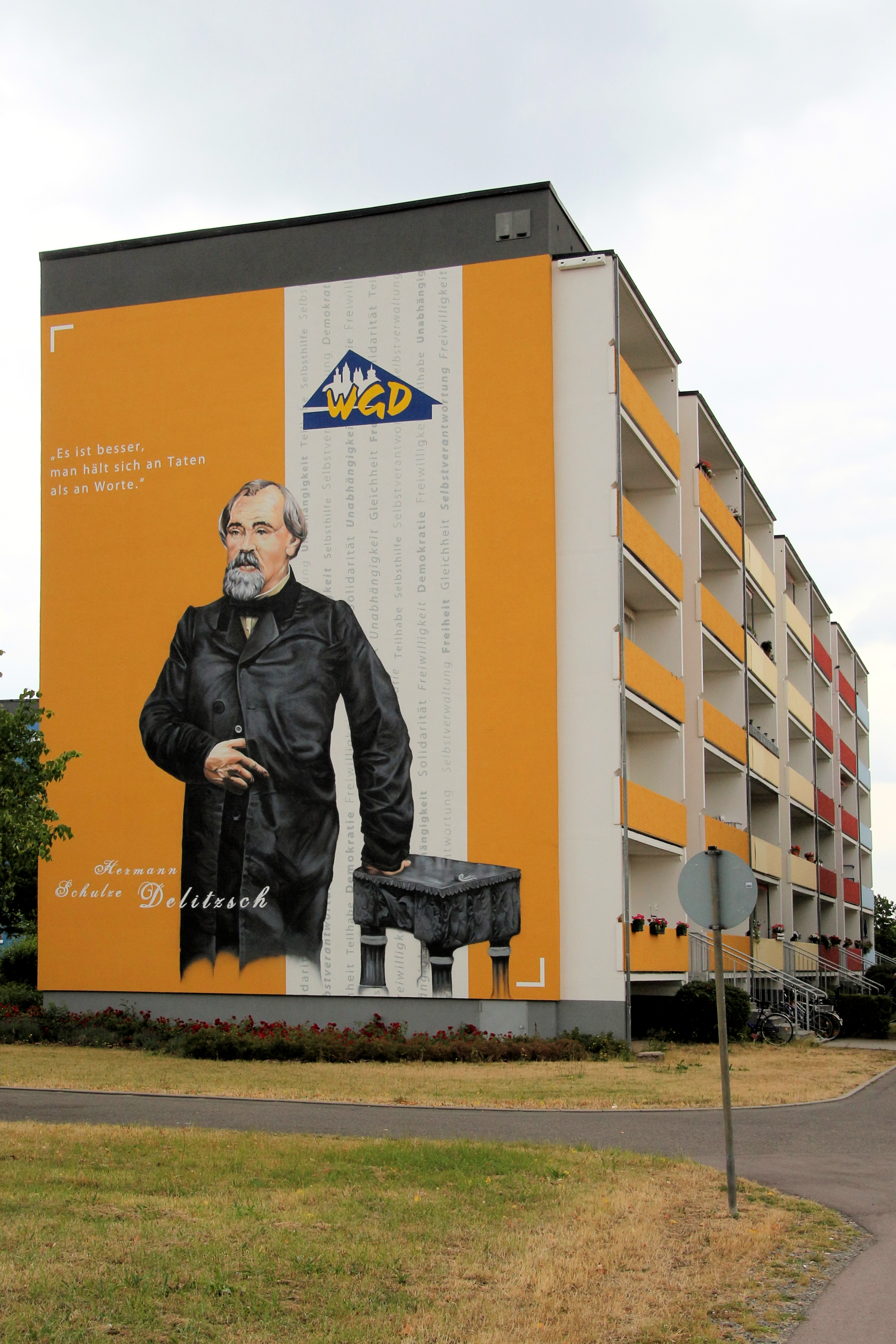 2013 in his native town Delitzsch designed facade with Hermann Schulze-Delitzsch